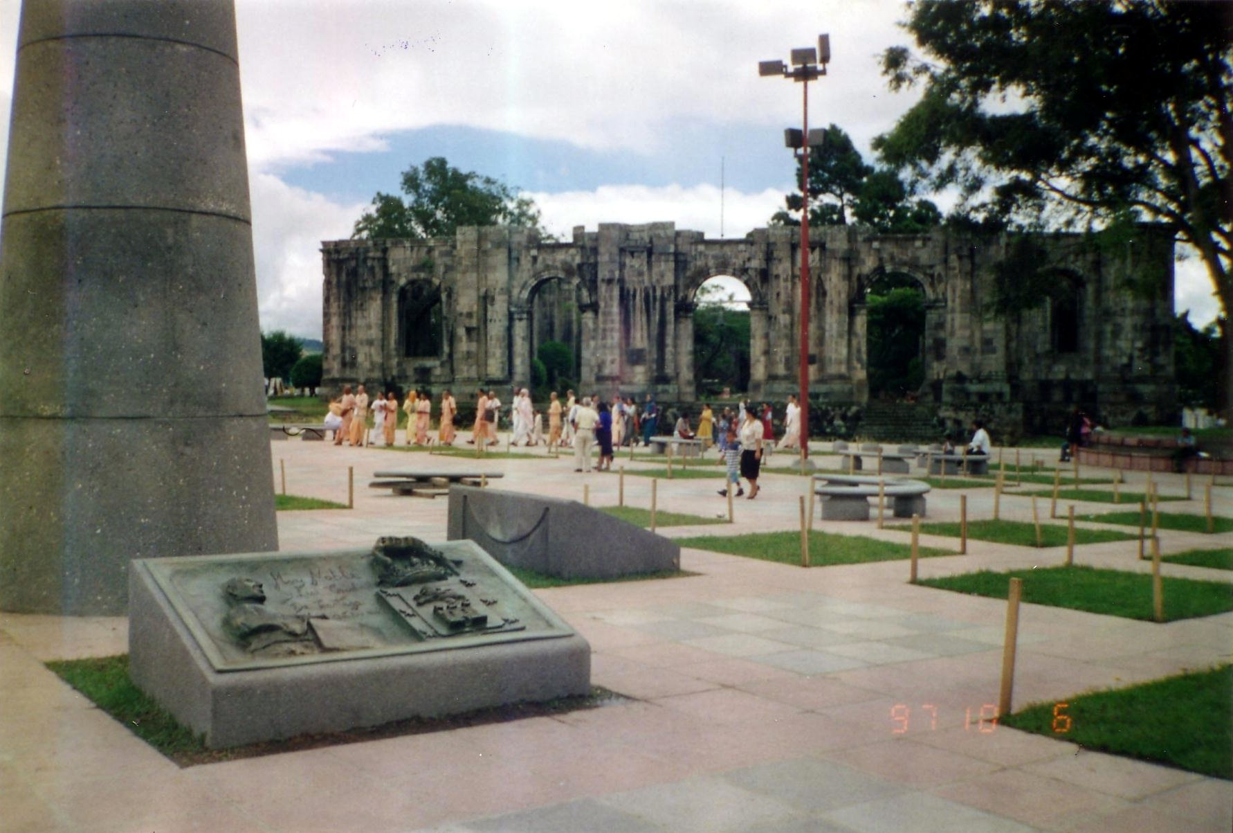 Old cathedral in Cartago, Costa Rica.